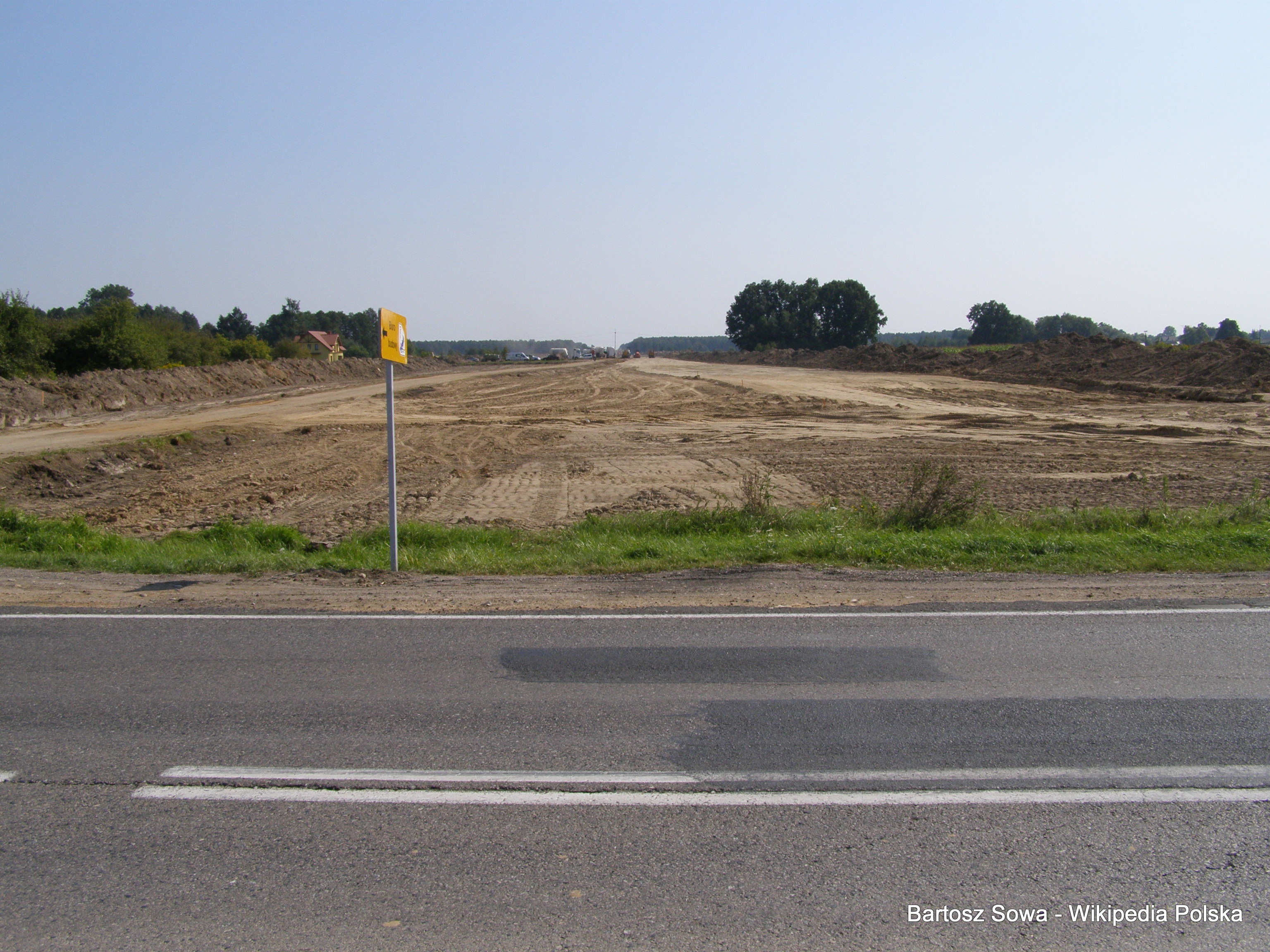 Freeway A2 in Poland. Mińsk County stage.